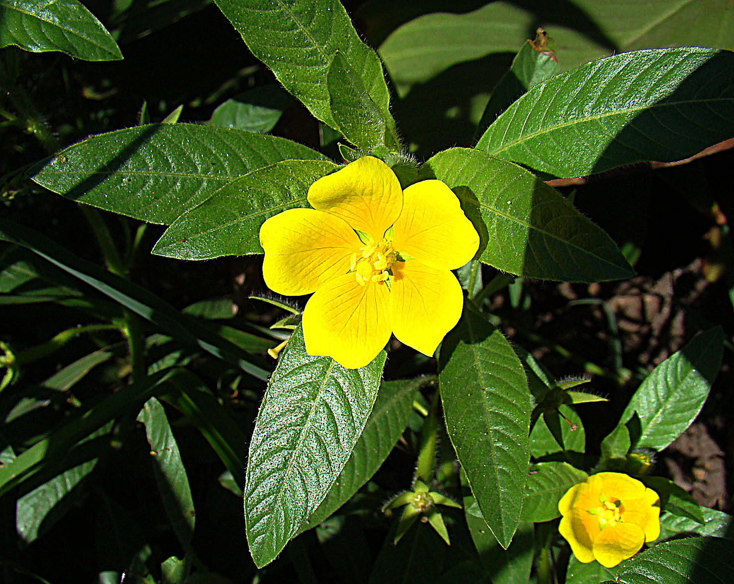 Known as the Creeping Water Primrose, from Uruguay and central Chile. In context at